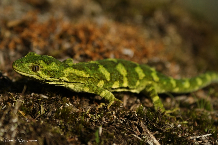 Rough gecko, Kaikoura Ranges.